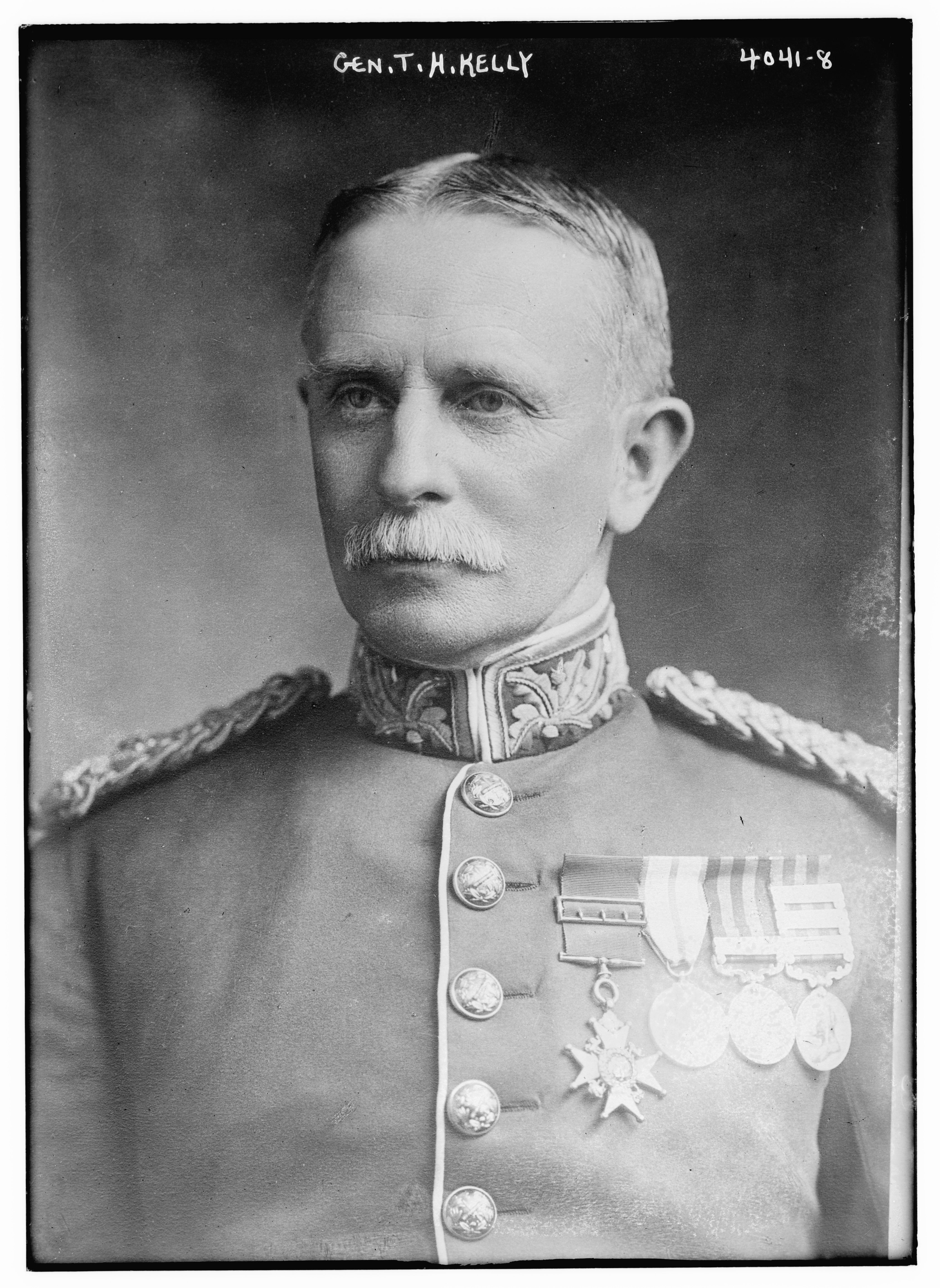 Major-General Francis Henry Kelly in 1916